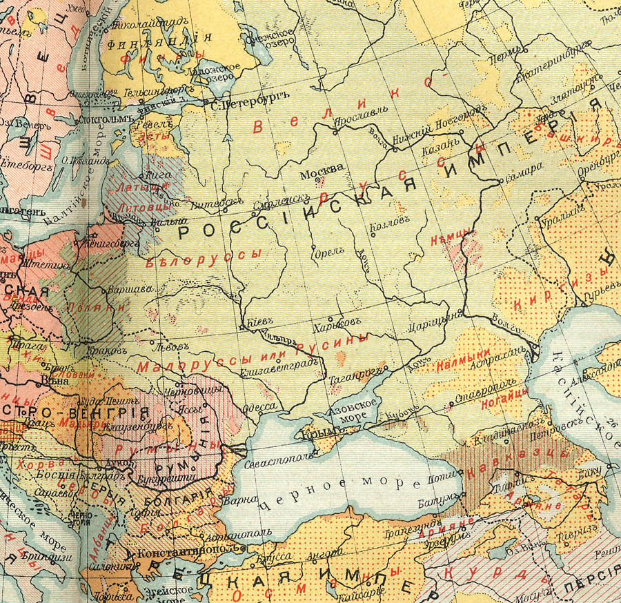 East European population and languages - Russian map of 1907